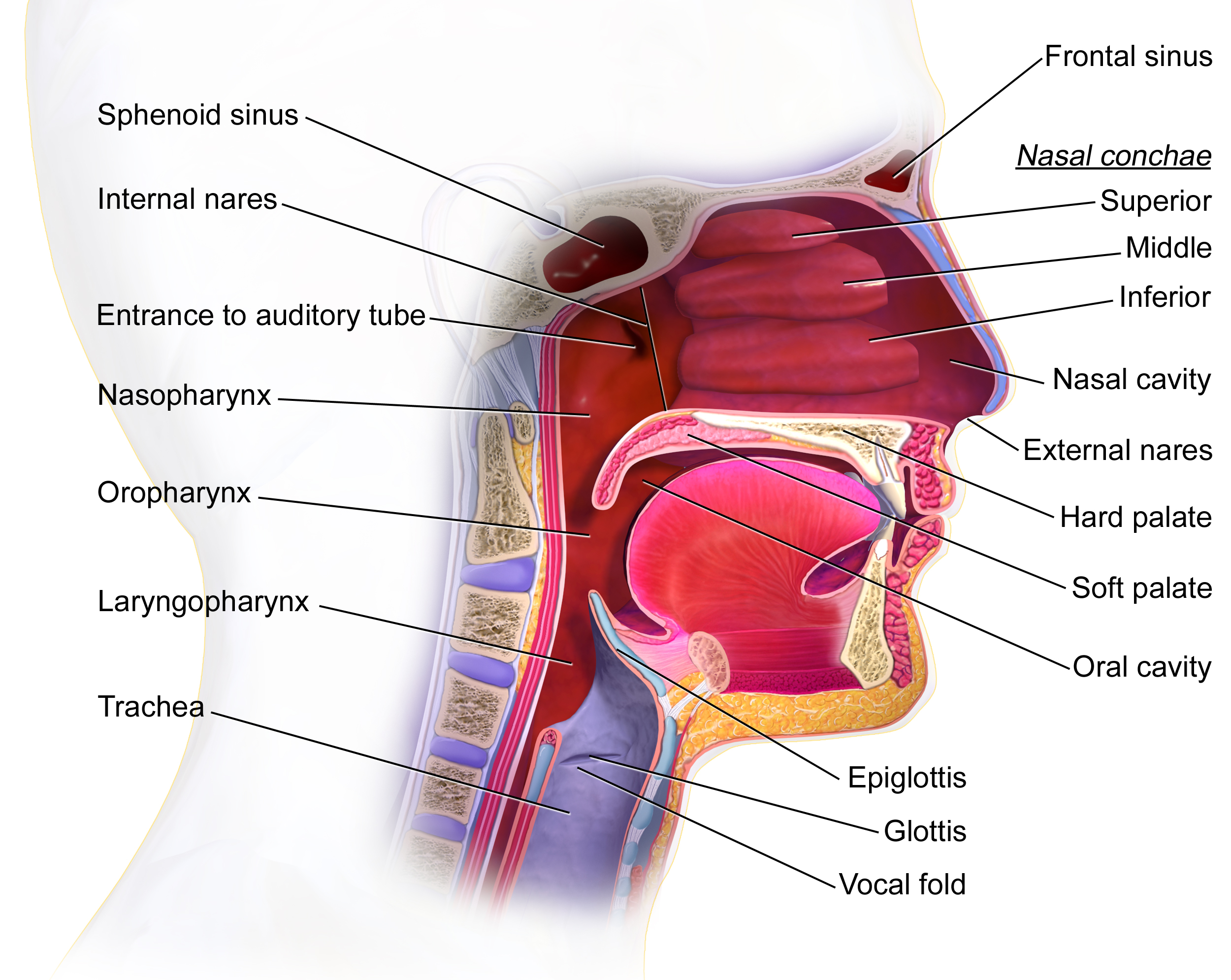 Structures of mouth and pharynx in sagittal plane (cropped to remove title)